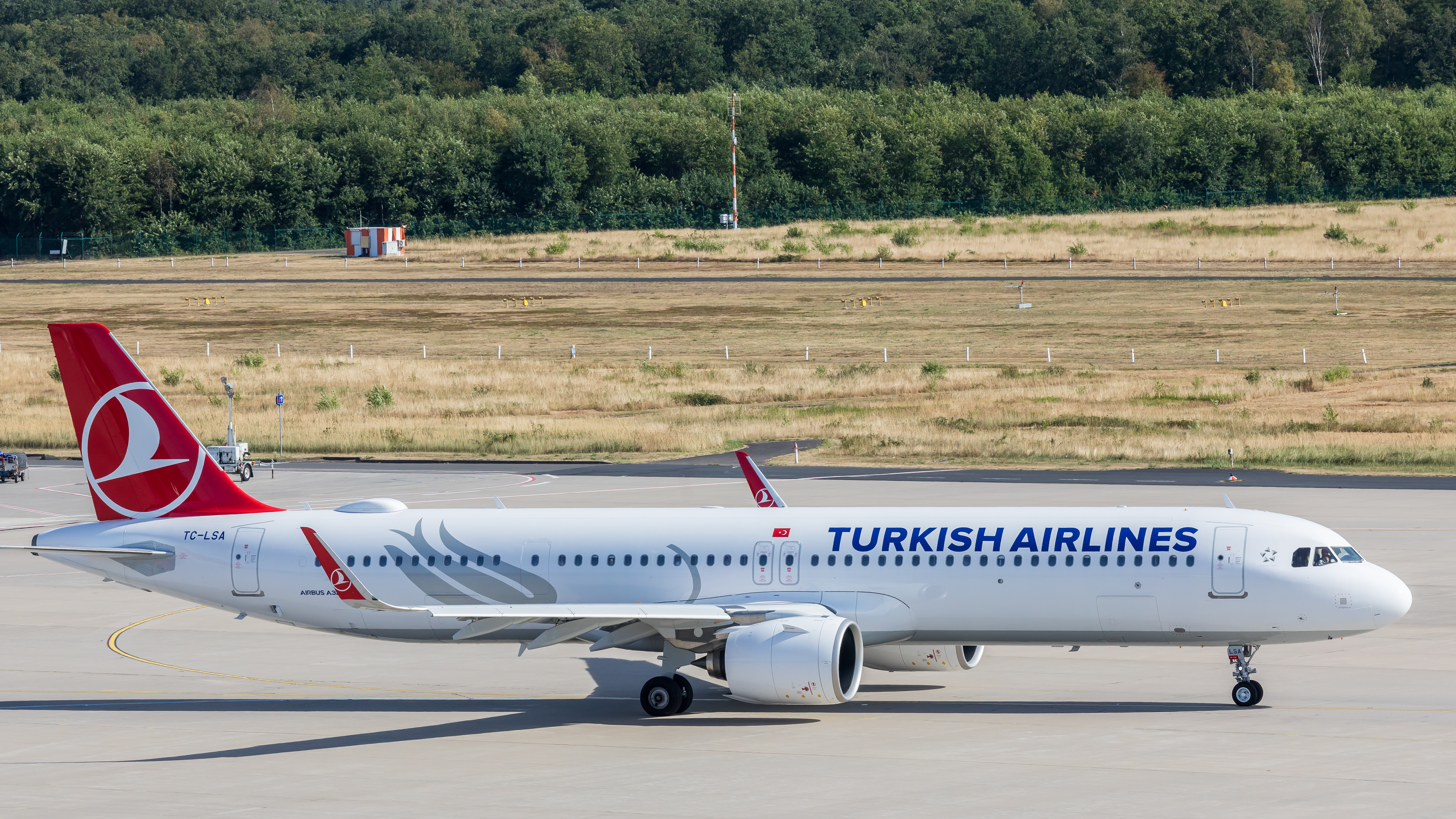 Turkish Airlines - Airbus A321-271NX - TC-LSA - Cologne Bonn Airport